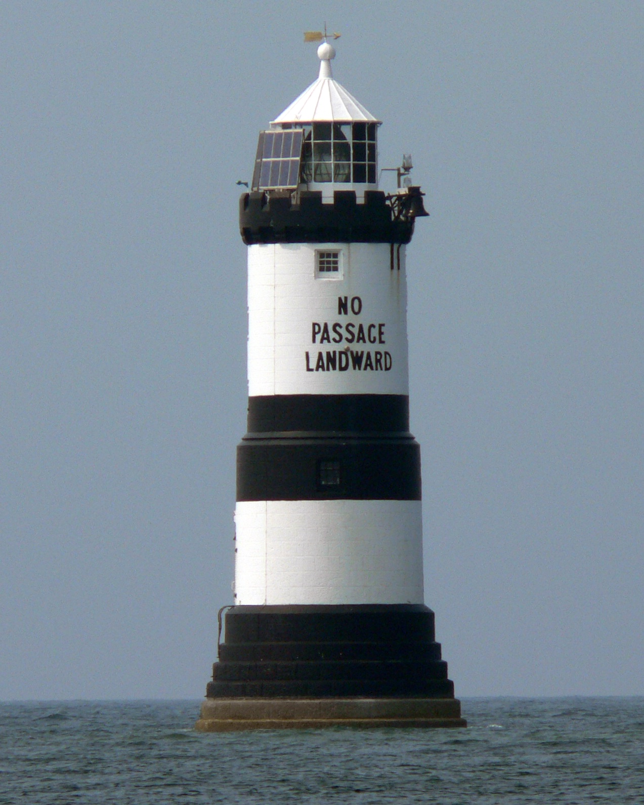 Penmon Lighthouse at the Isle of Anglesey, Wales, United Kingdom.